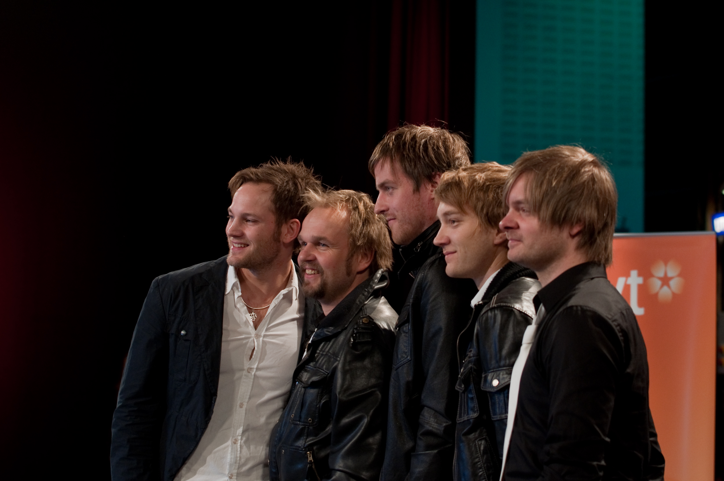 Highlights 2009 at a press conference for Melodifestivalen 2010